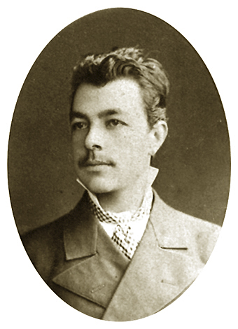 Stepan Malkhasyants, an Armenian academician and philologist(studentship)